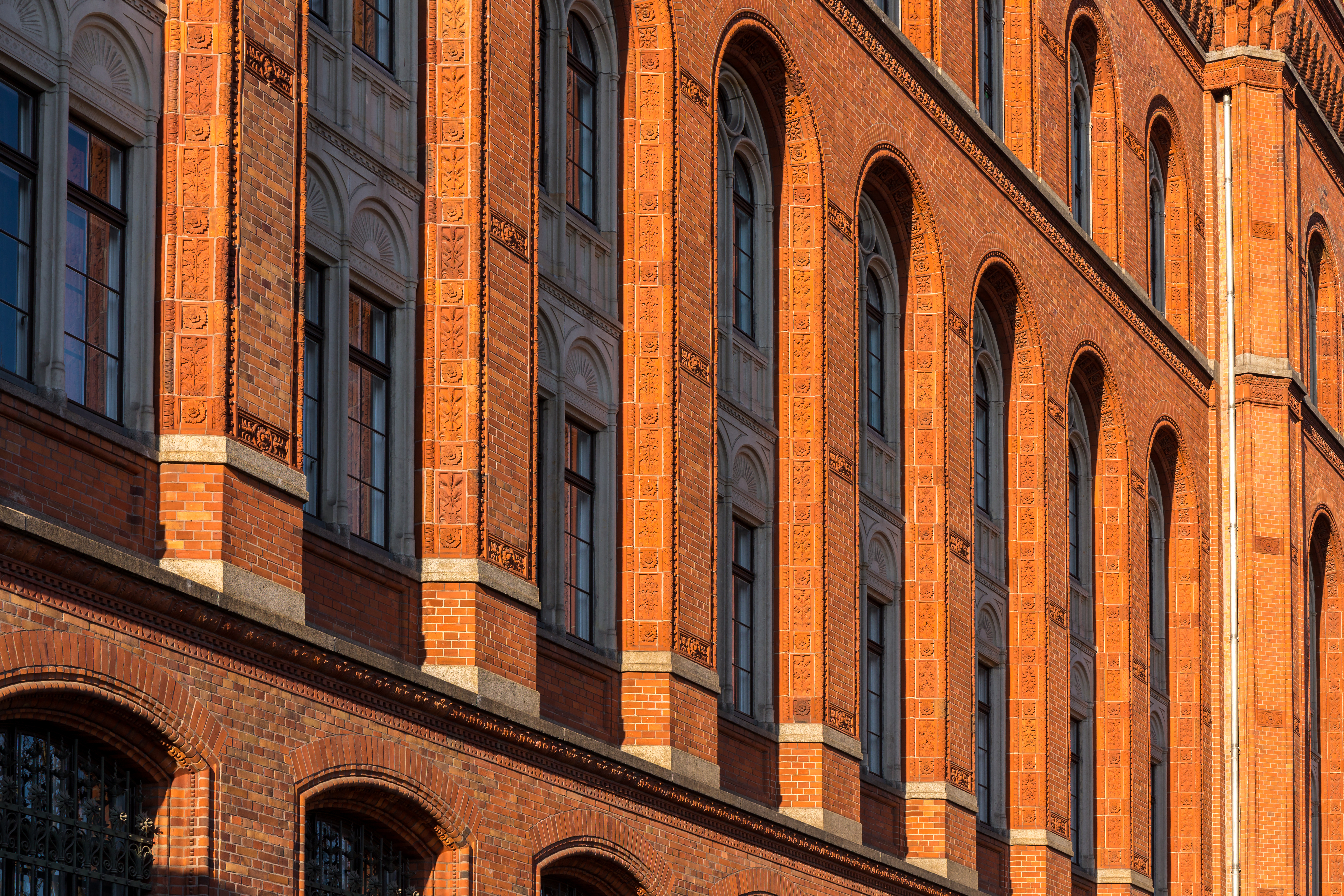 Detail of the east facade of Rotes Rathaus in Berlin.